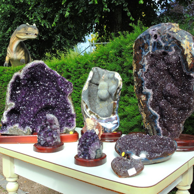 Mineral zone